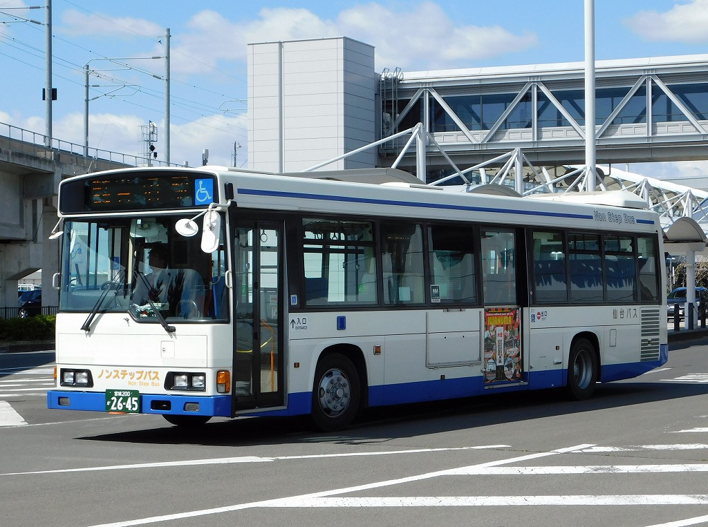 Sendai bus Hino Rainbow HR (PK-HR7JPAE)